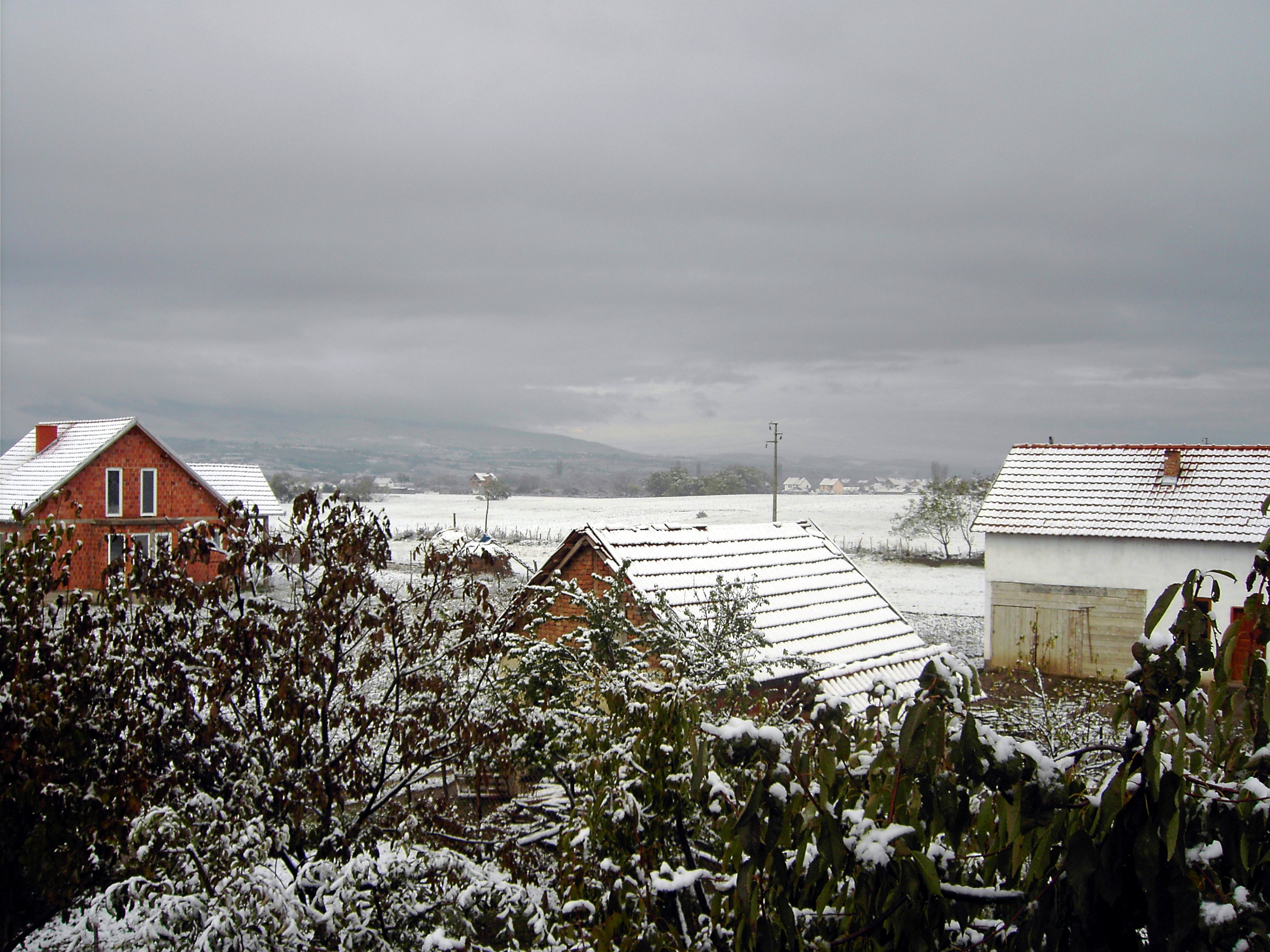 Village of Stanovci with Čičavica in the distance